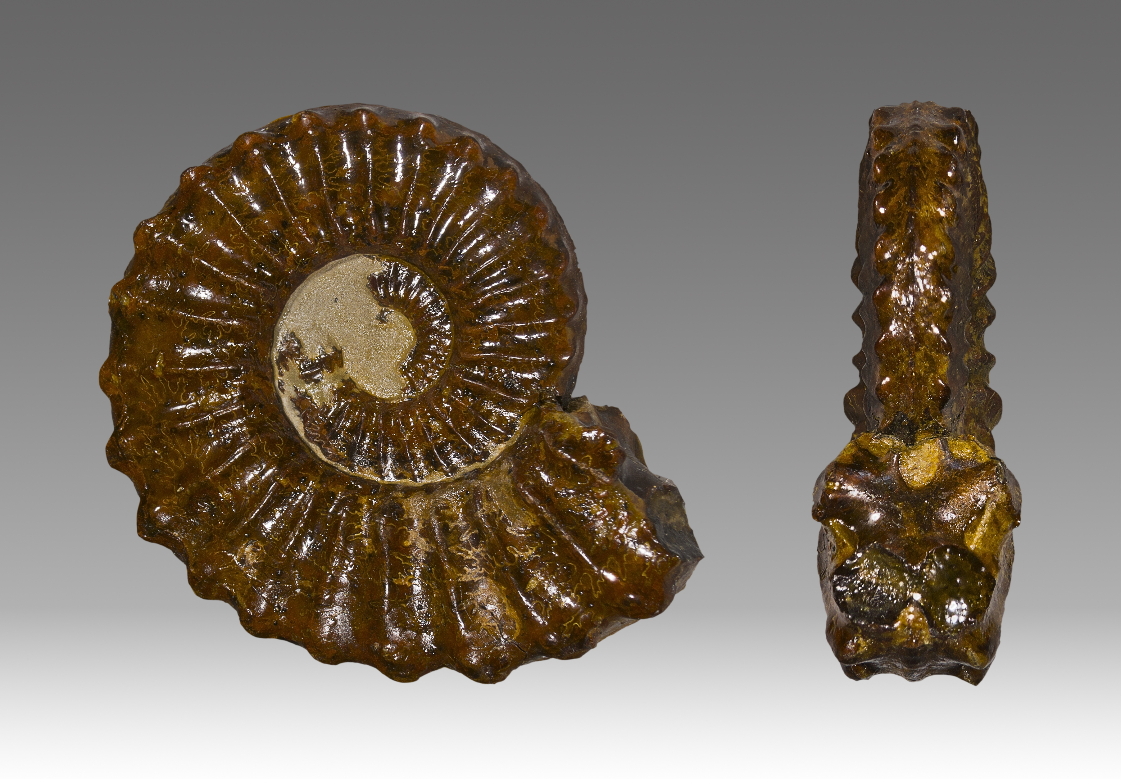 Pleuroceras spinatum (Bruguière 1789)- Amaltheidae; Pyritic specimen. biozone index to the end of Pliensbachian. Stage : Pliensbachian from 189,6 ± 1,5 Ma to -183,0 ± 1,5 Ma (million years ago) (Domerian) Locality: Lanuéjols, Gard, France Size : 4.5x3.8x1.45 cm 30.6g